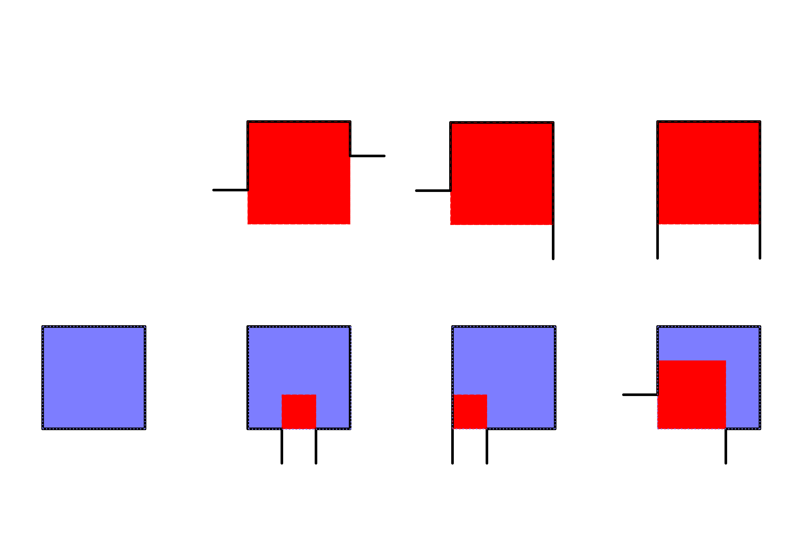 Adapted from (1996). "A Linear-Time Algorithm for Covering Simple Polygons with Similar Rectangles". International Journal of Computational Geometry & Applications 06: 79. The 7 maximal continuator types in a hole-free rectilinear polygon. The top 3 are 1-knob continuators. The bottom are (from right to left) 2-knob, 2-knob, 3-knob and 4-knob. The blue part of the continuator is its "balcony" - its points not covered by any other maximal square.